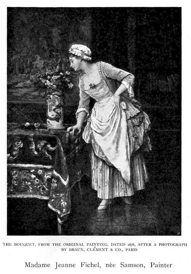 1905 print after page of Women painters of the world, from the time of Caterina Vigri, 1413-1463, to Rosa Bonheur and the present day, by Walter Shaw Sparrow, The Art and Life Library, Hodder & Stoughton, 27 Paternoster Row, London